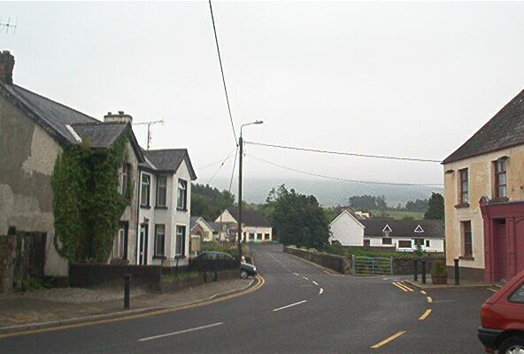 Dowra